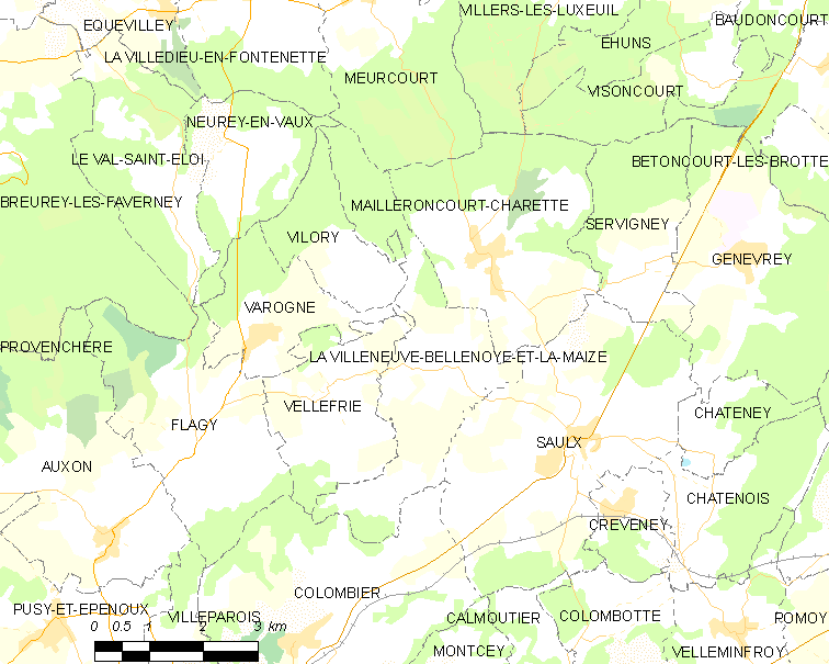 Map of French municipality